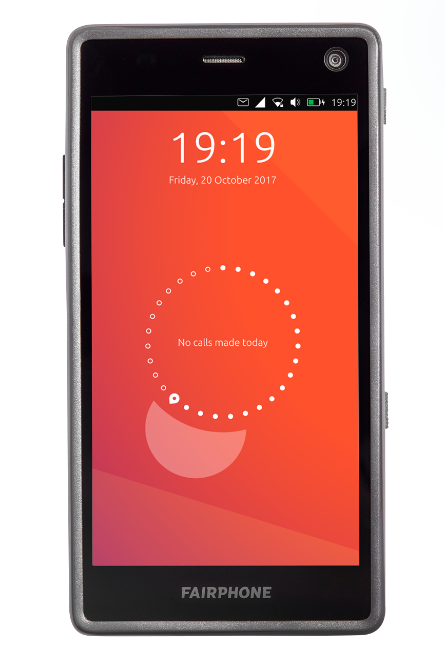 Fairphone 2 showing the Ubuntu Touch lockscreen